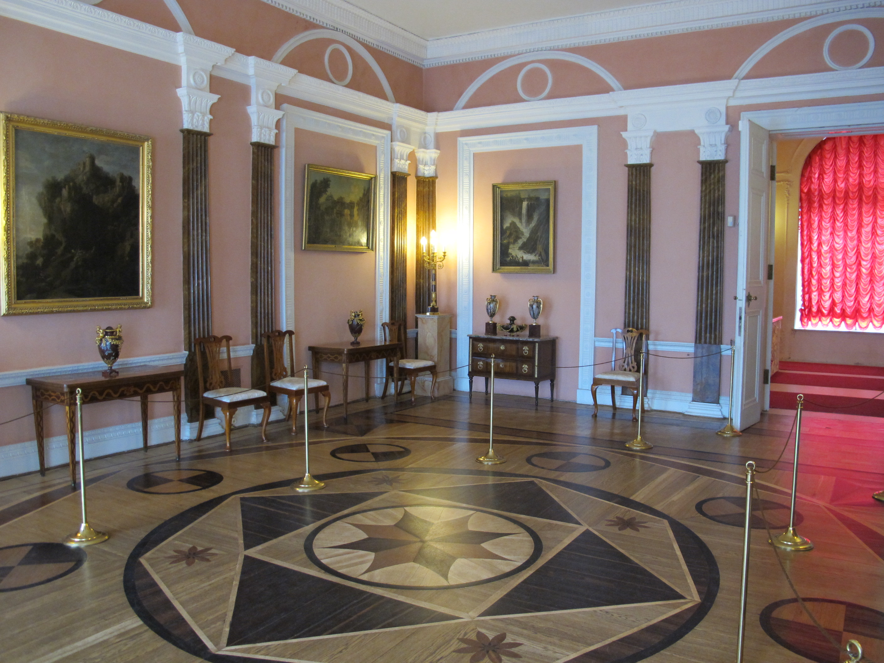 Catherine Palace, interior